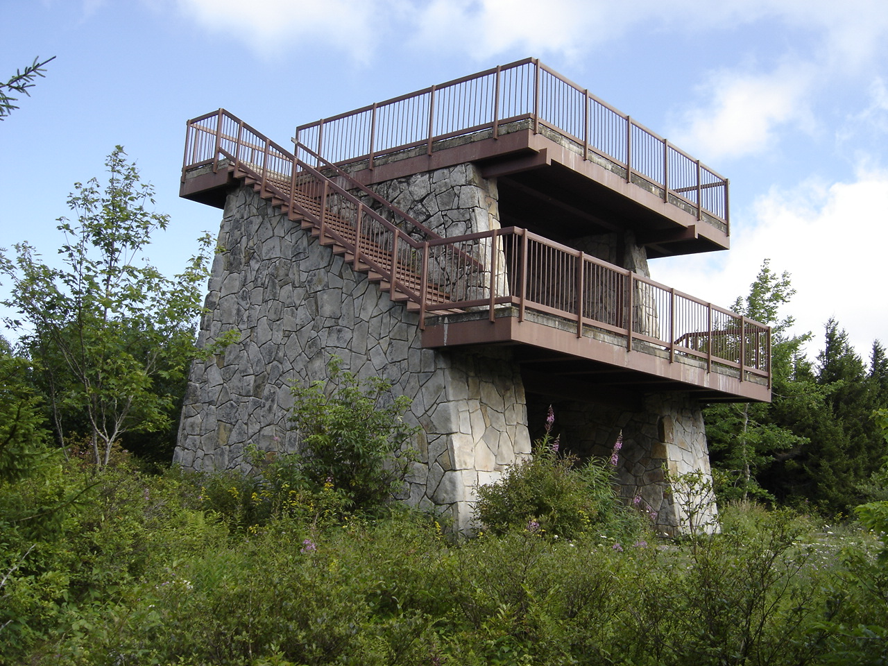 Observation tower atop Spruce Knob, high point in West Viginia 7-26-2010